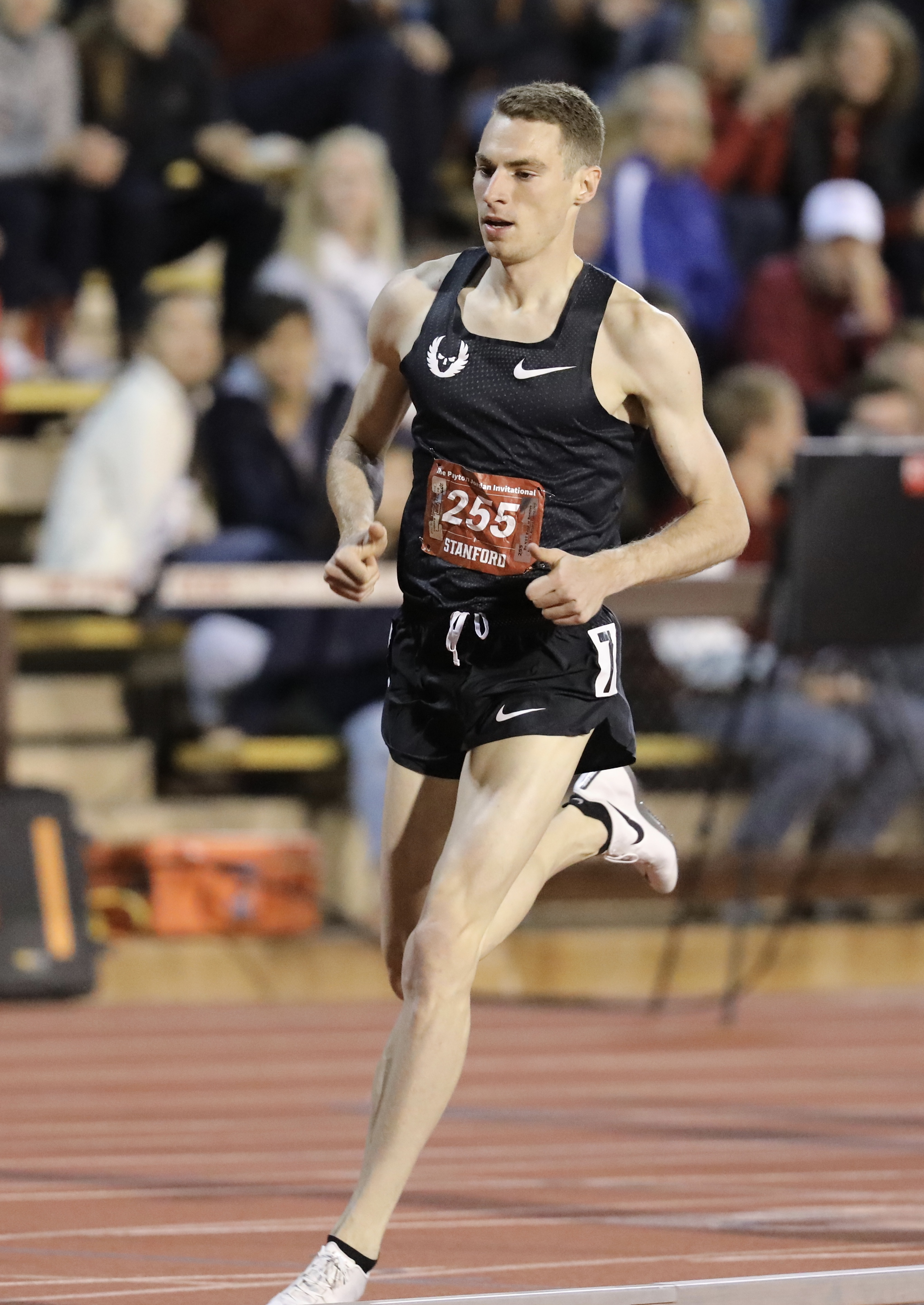 2019 Payton Jordan Invitational